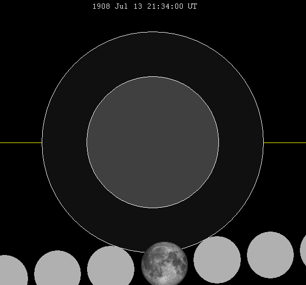 lunar eclipse chart of moon's path through the earth's shadow. thumb